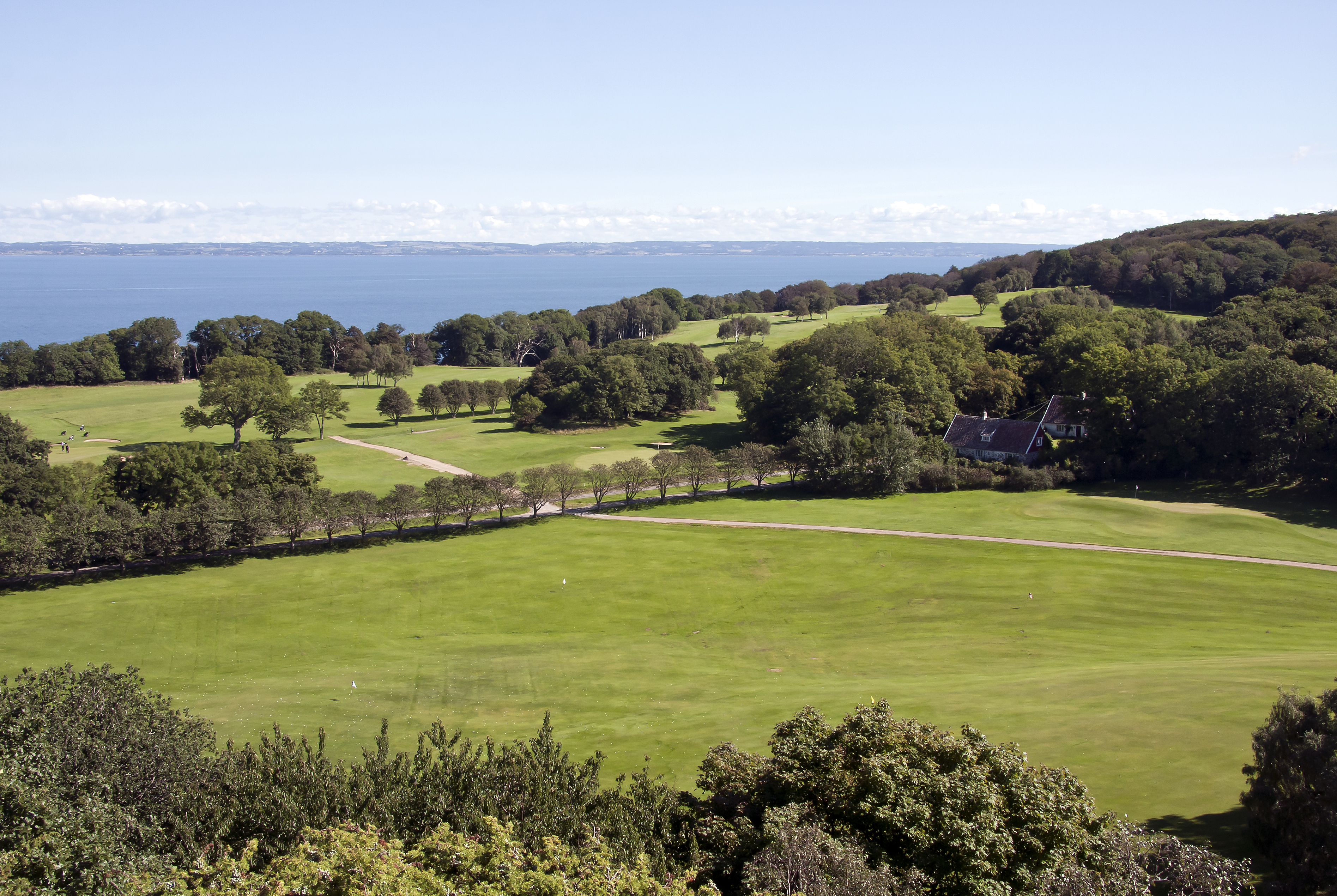 Golf course near Mölle in Sweden.